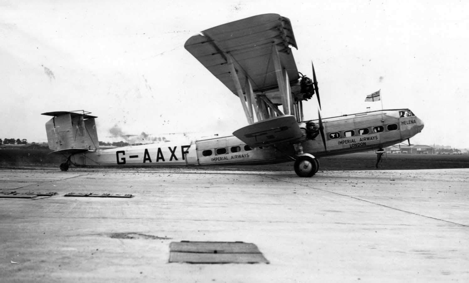 Image from an Album belonging to Harry White, 1919-1947, documenting his career as a Naval Aviator. SOURCE INSTITUTION: San Diego Air and Space Museum Archive